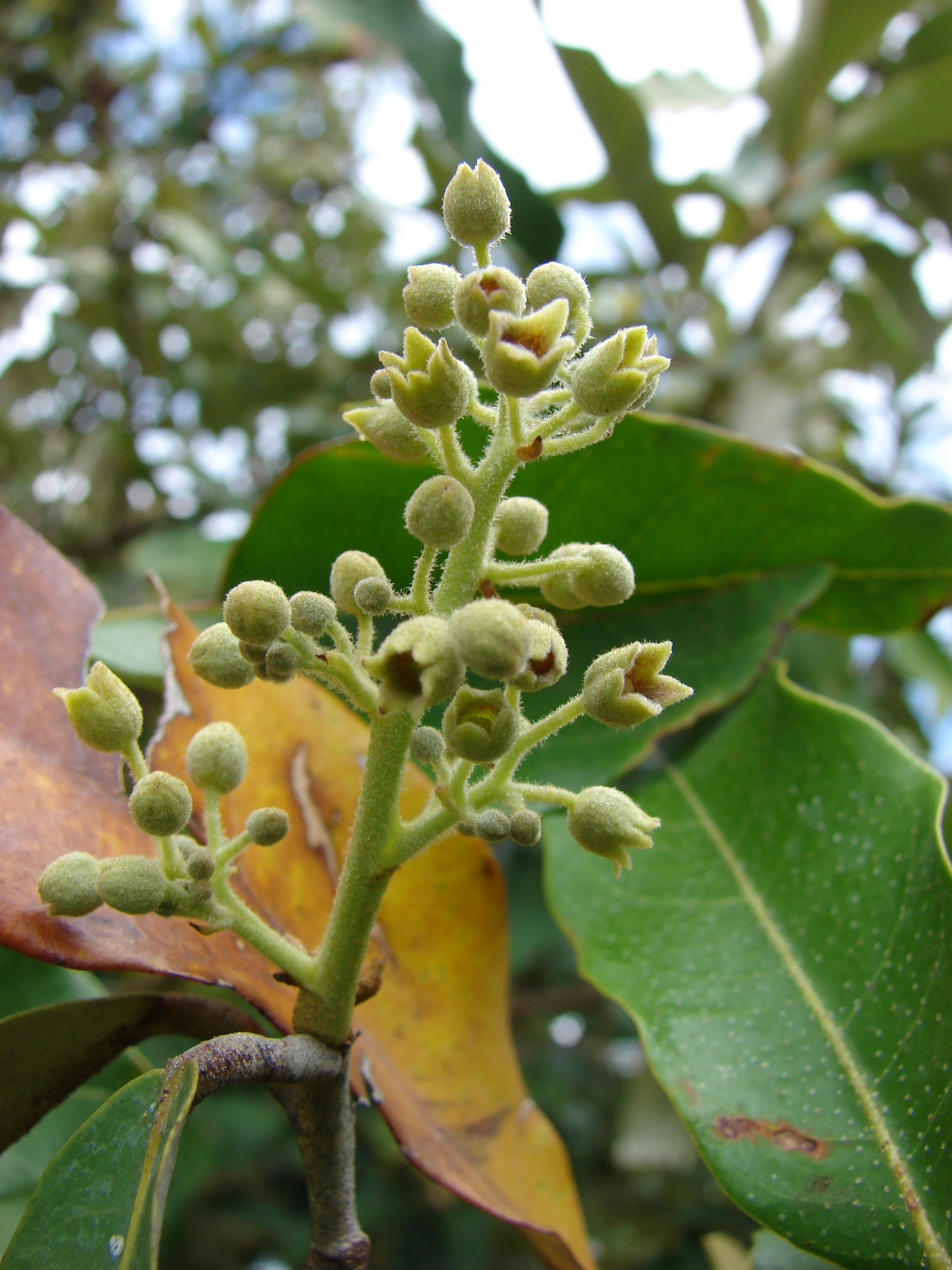 Heritiera littoralis (flowers). Location: Oahu, Keehi Lagoon